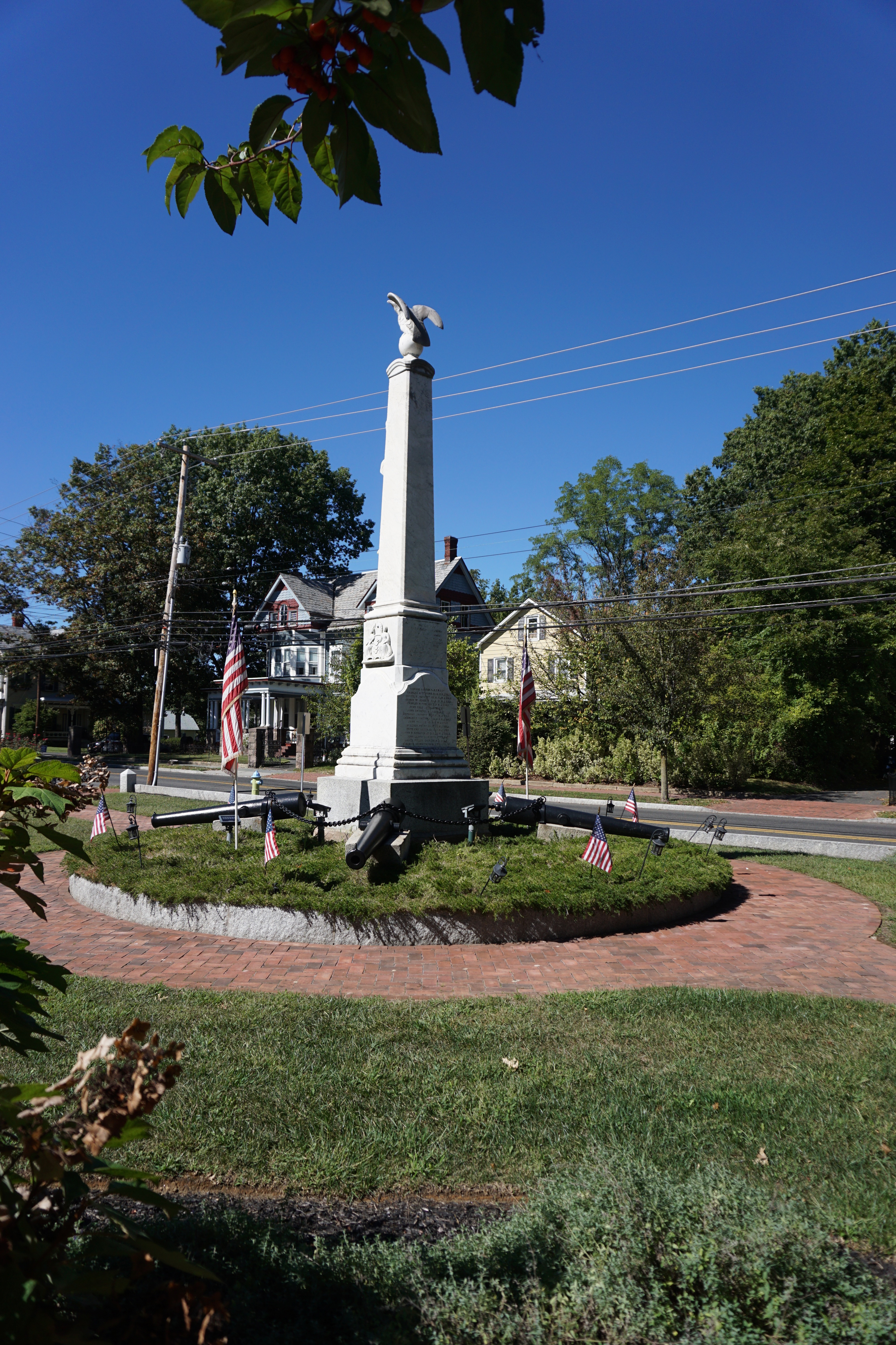 Hightstown's Civil War Veterans Memorial, located at the corner of Stockton Street and Rogers Avenue